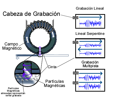 Magnetic Recording Head and Lineal Recording variant